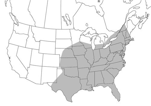 The North American range of the Psorophora ciliata mosquito.